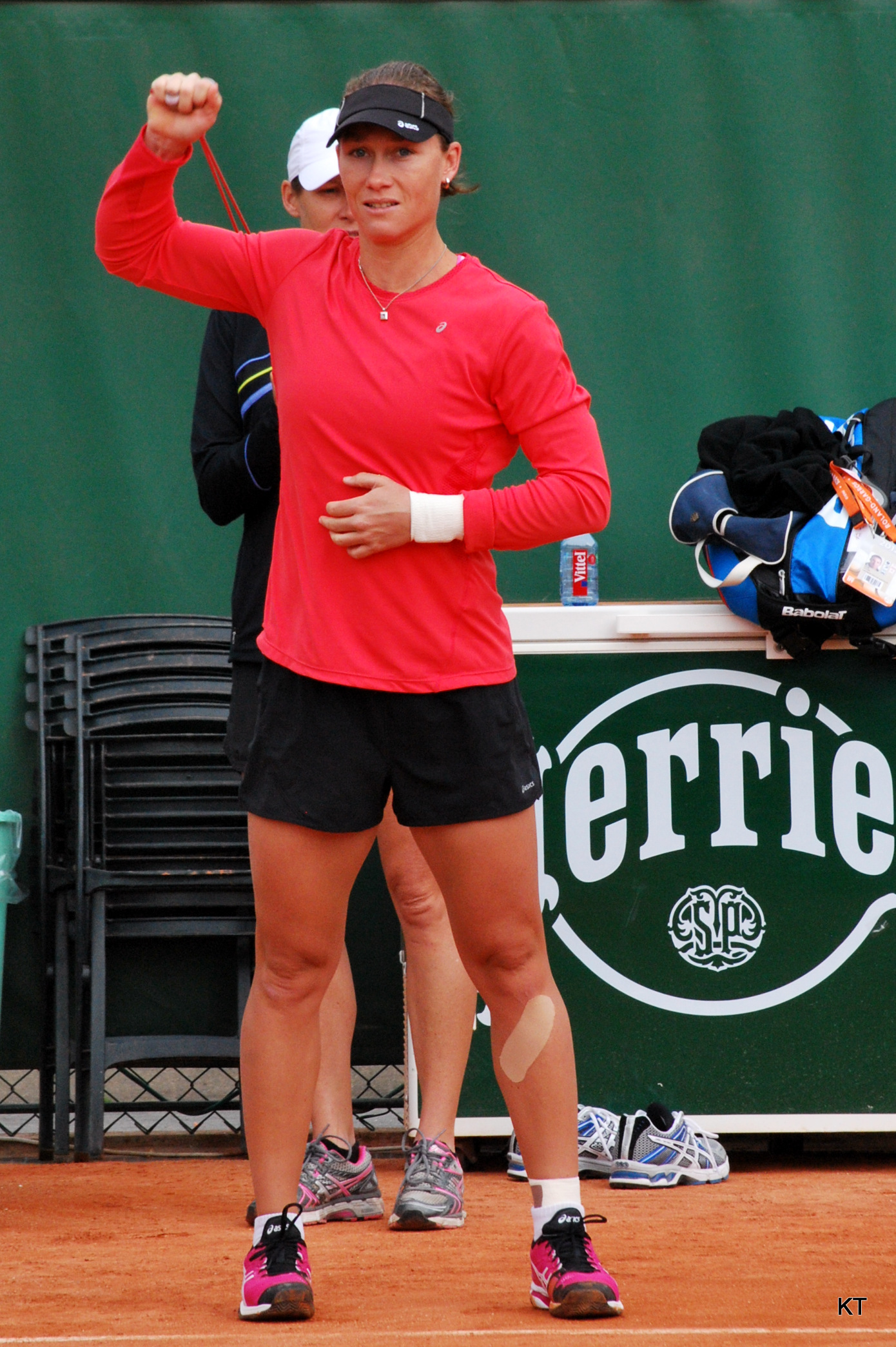 Sam Stosur warming up before her 3rd round match with Nadia Petrova on Day 6 of the French Open. Roland Garros 2012.